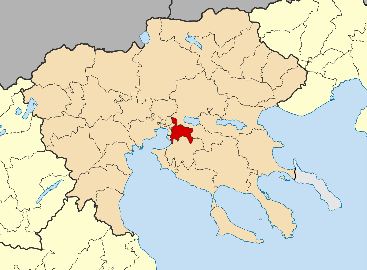 Locator map for Pylea-Chortiatis municipality in Greek region Central Macedonia (2011)